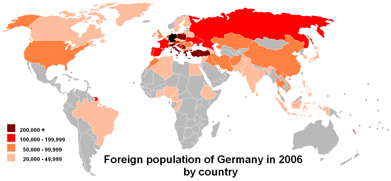 Foreign population in Germany on 31 December 2006